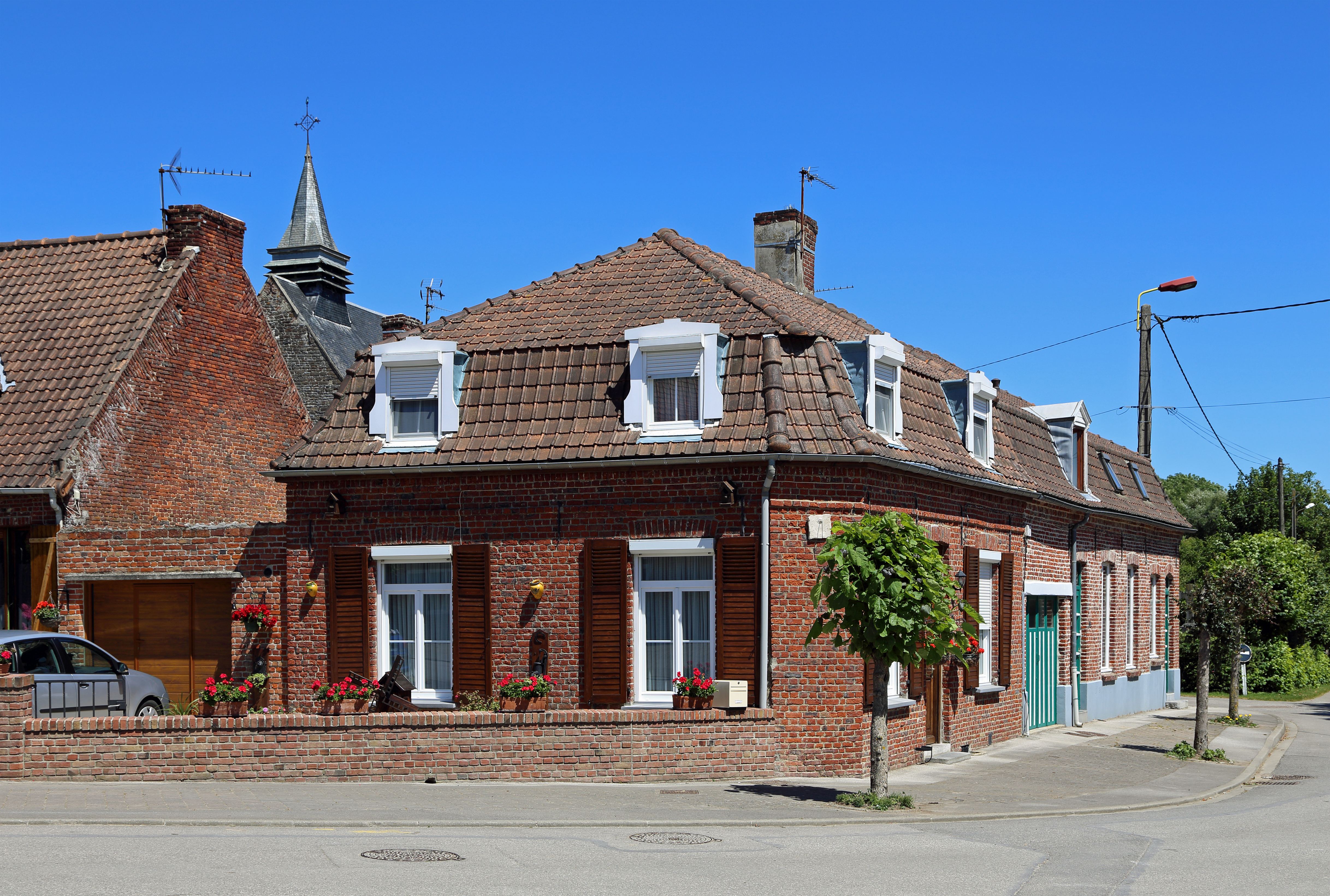 Oxelaëre (département du Nord, France): houses in the village